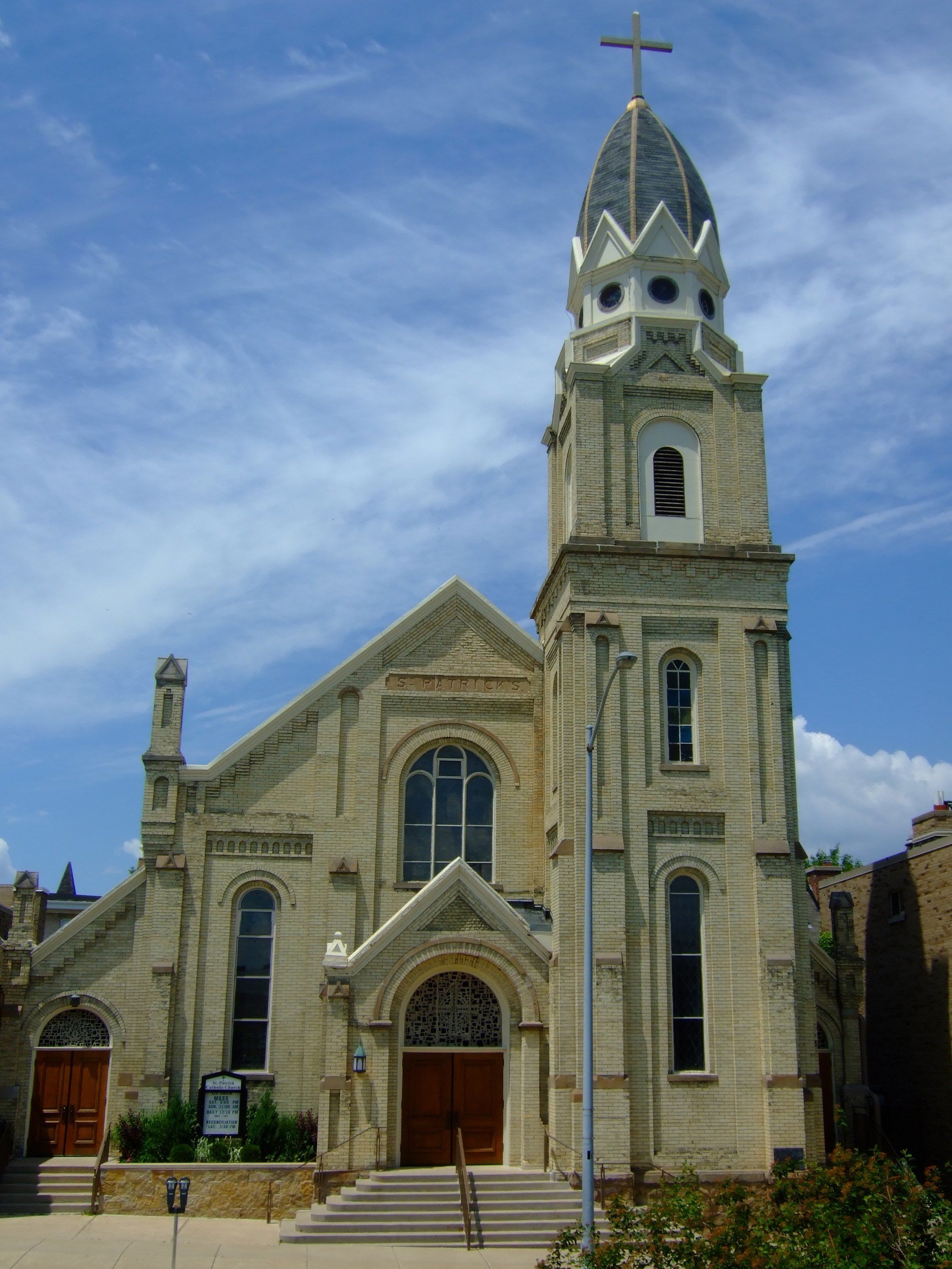 St. Patrick's Roman Catholic Church (1888-89) in Madison, Wisconsin. Designed in a late 19th-century eclectic style by Madison civil engineer and architect John Nader, this church is the third-oldest Catholic parish in the city. It was dedicated on St. Patrick's Day in 1889, with Archbishop Heiss of Milwaukee in attendance. Since its construction by local builder Timothy McCarthy, the church has undergone several major alterations, including a widening of the entire structure in 1903. It was added to the National Register of Historic Places in 1982.